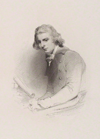 Portrait of Samuel Rose (1767–1804), English barrister and literary editor.